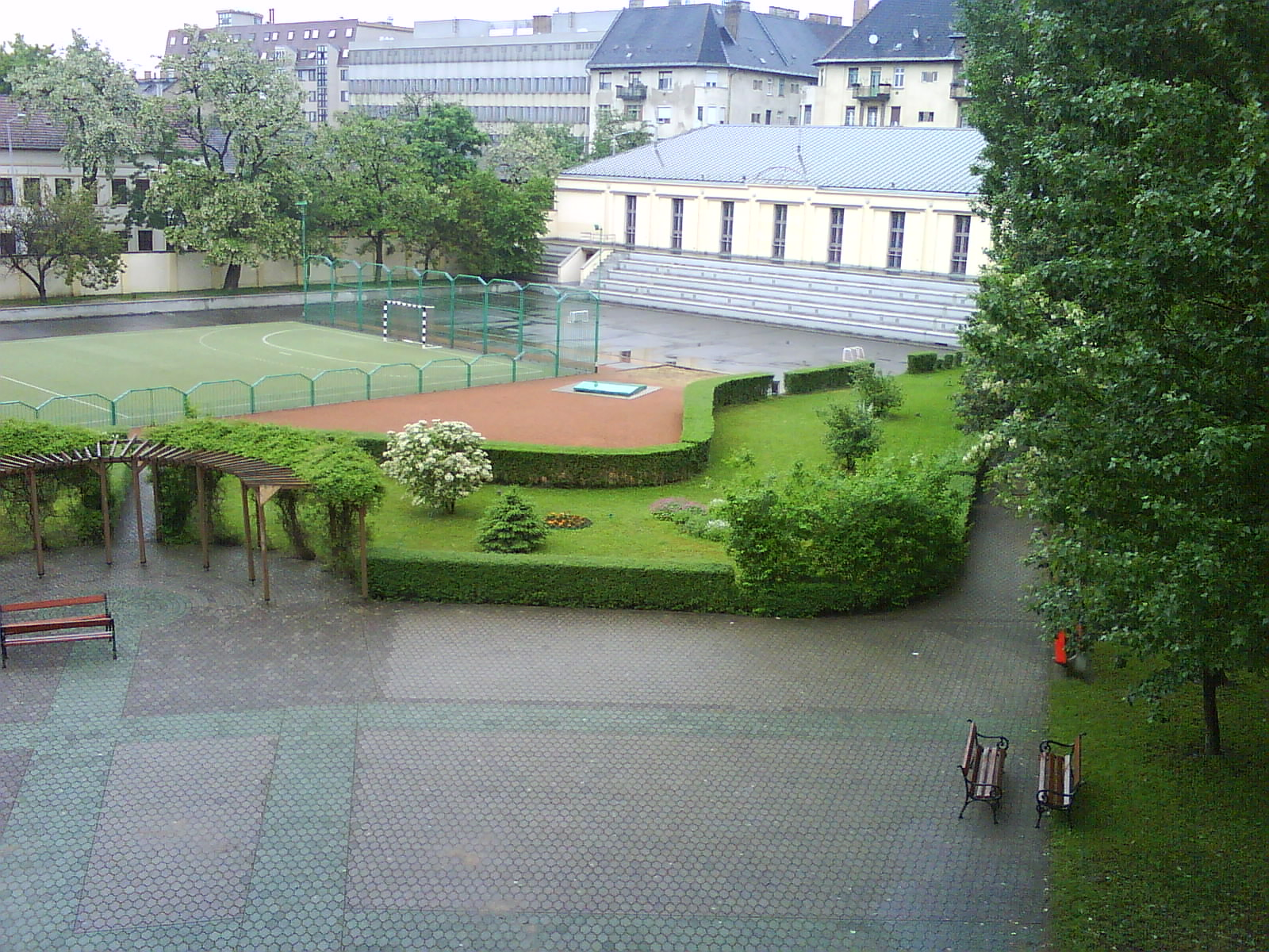 The school yard of the Szent László Gimnázium (Budapest, Hungary).